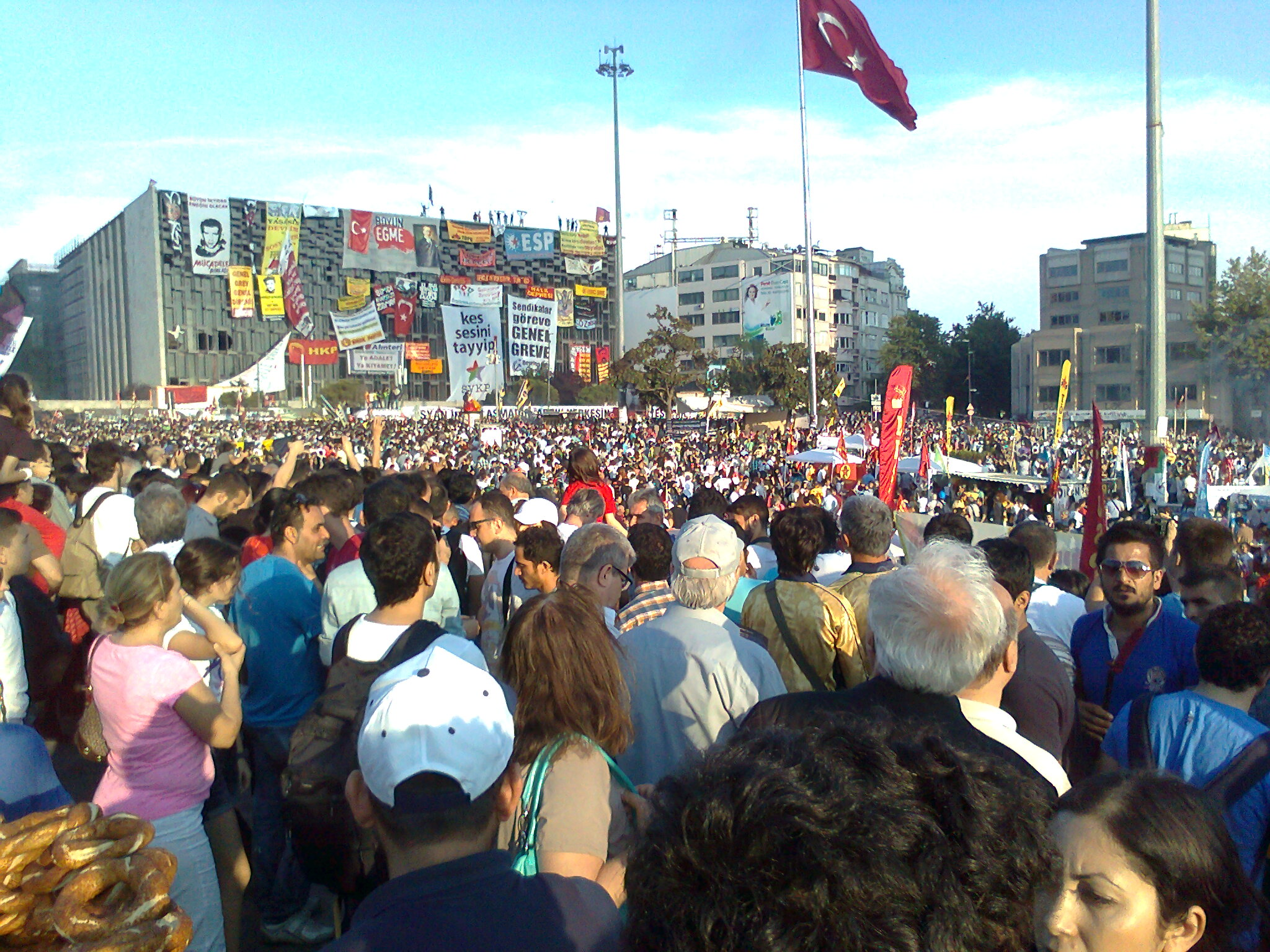 A photo of Taksim Gezi Parki Protests.